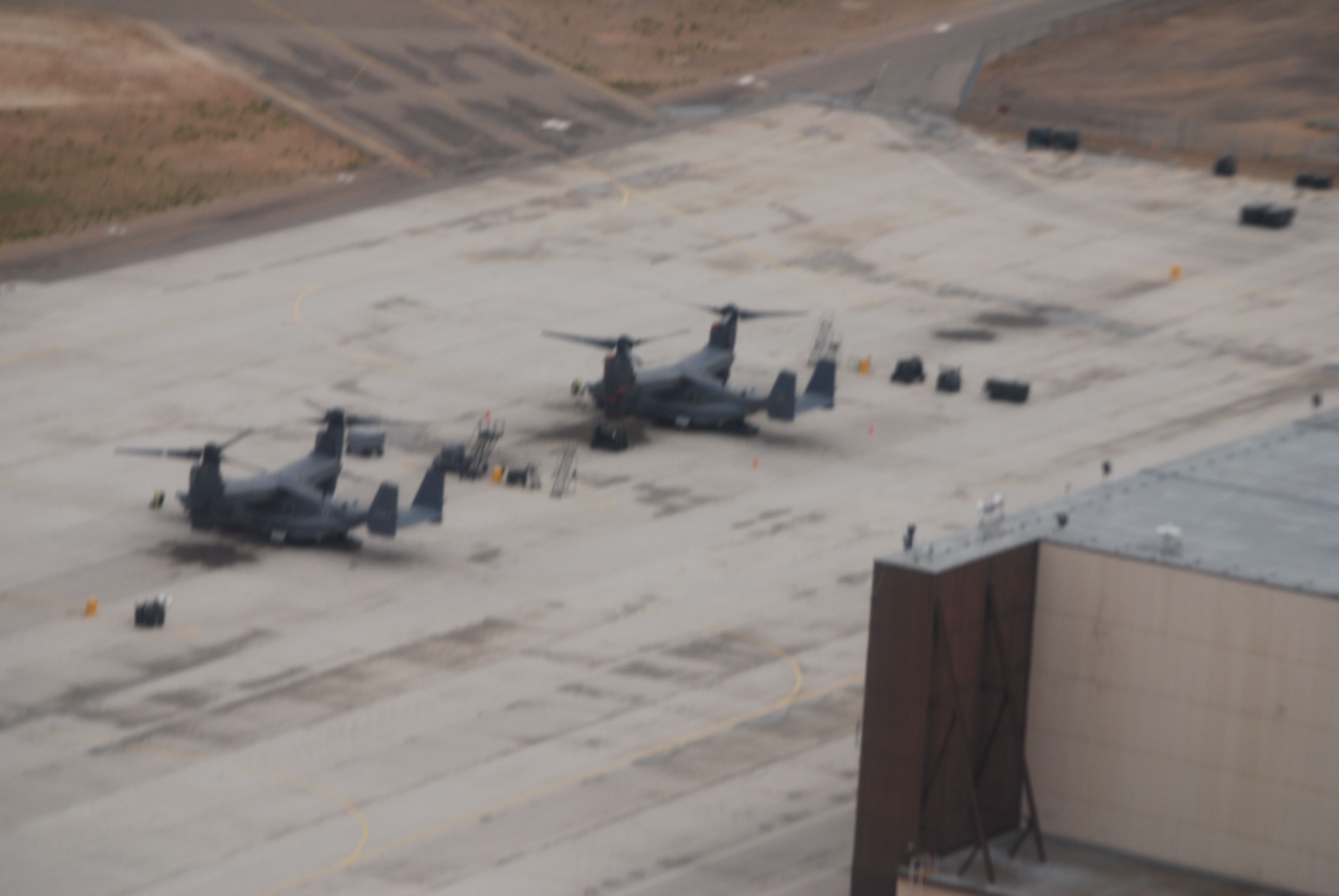 I think this was adjacent to the civil airfield where we paused between Texas and California... have to figure it out. Anyway, these are real V-22s and they're on the ramp and look ready to go. Not bad for a grab shot out the window of a climbing airliner, but not all that good either! DSC_1200